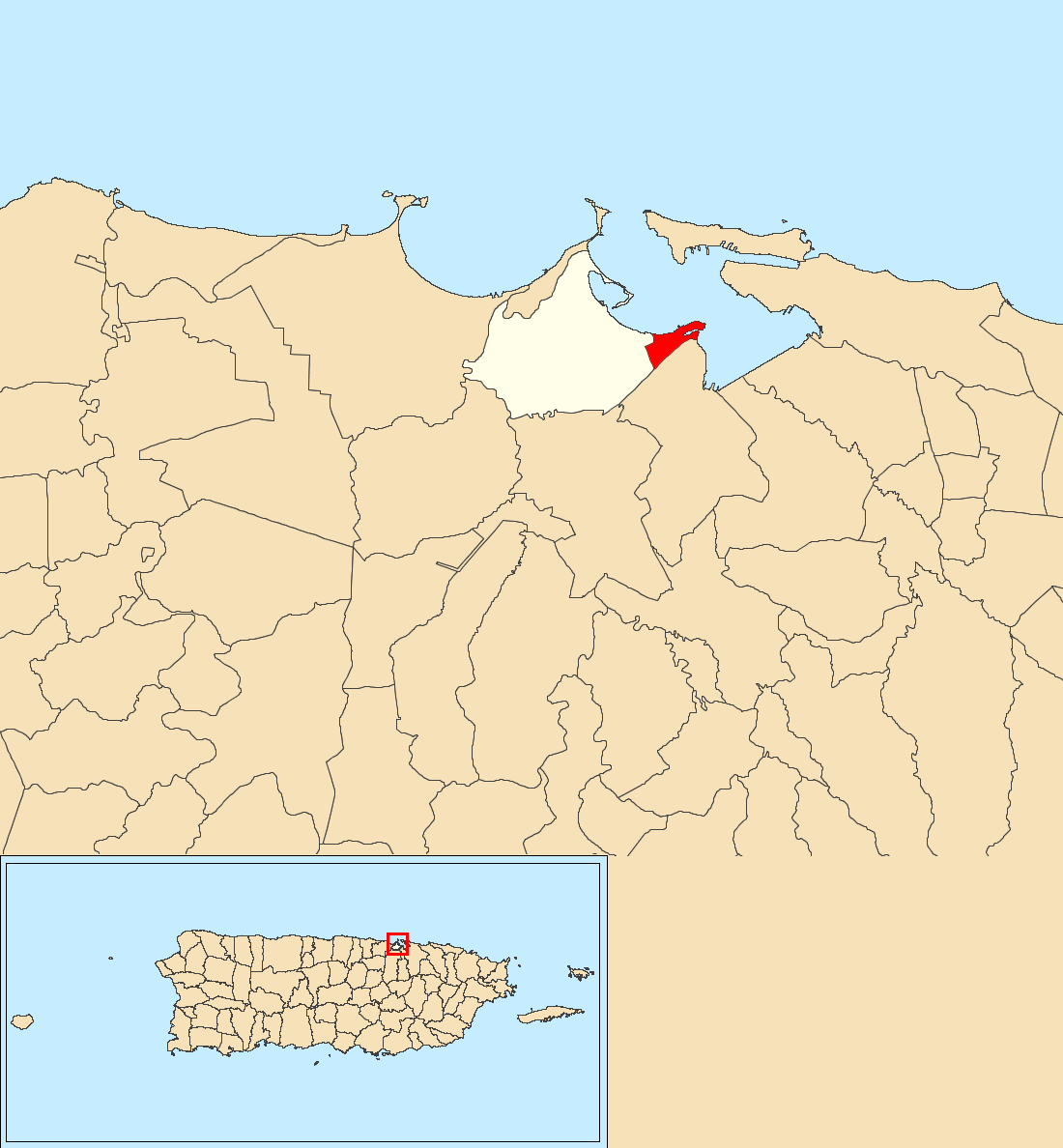 Cataño barrio-pueblo, Cataño, Puerto Rico locator map